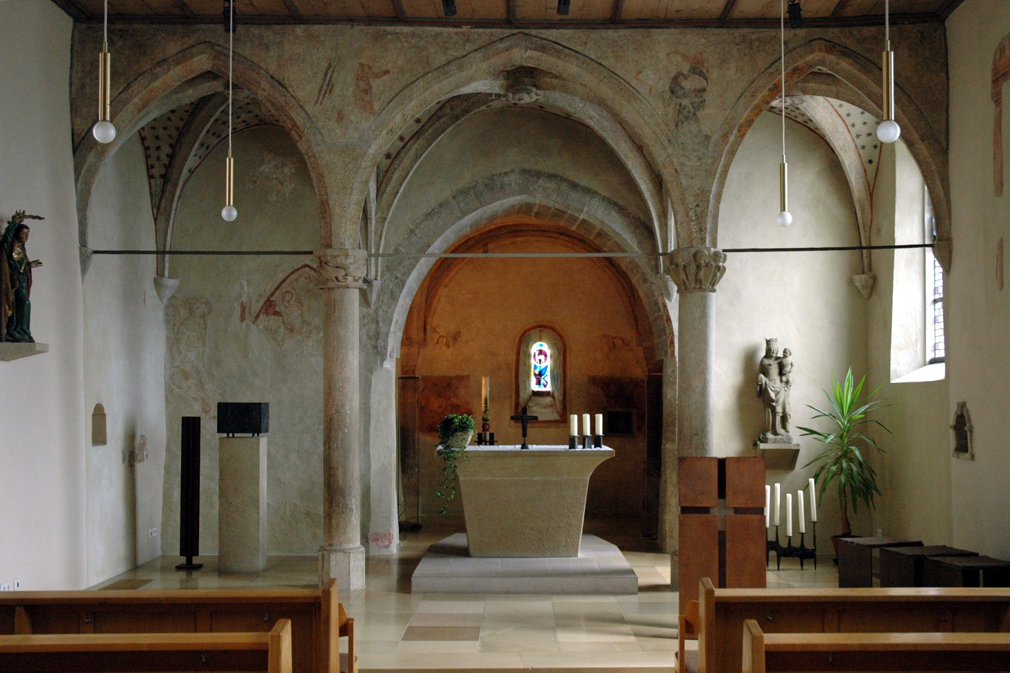 Altar of church of Saint Michael at the Michaelsberg near Cleebronn.